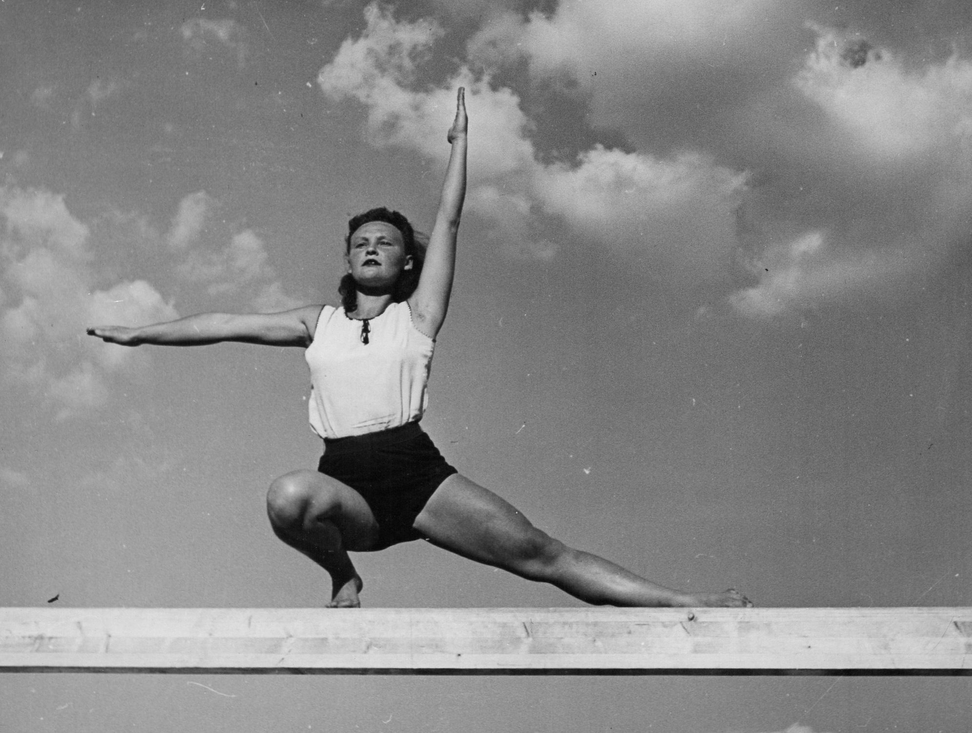 Portrait of Eliška Misáková at beam